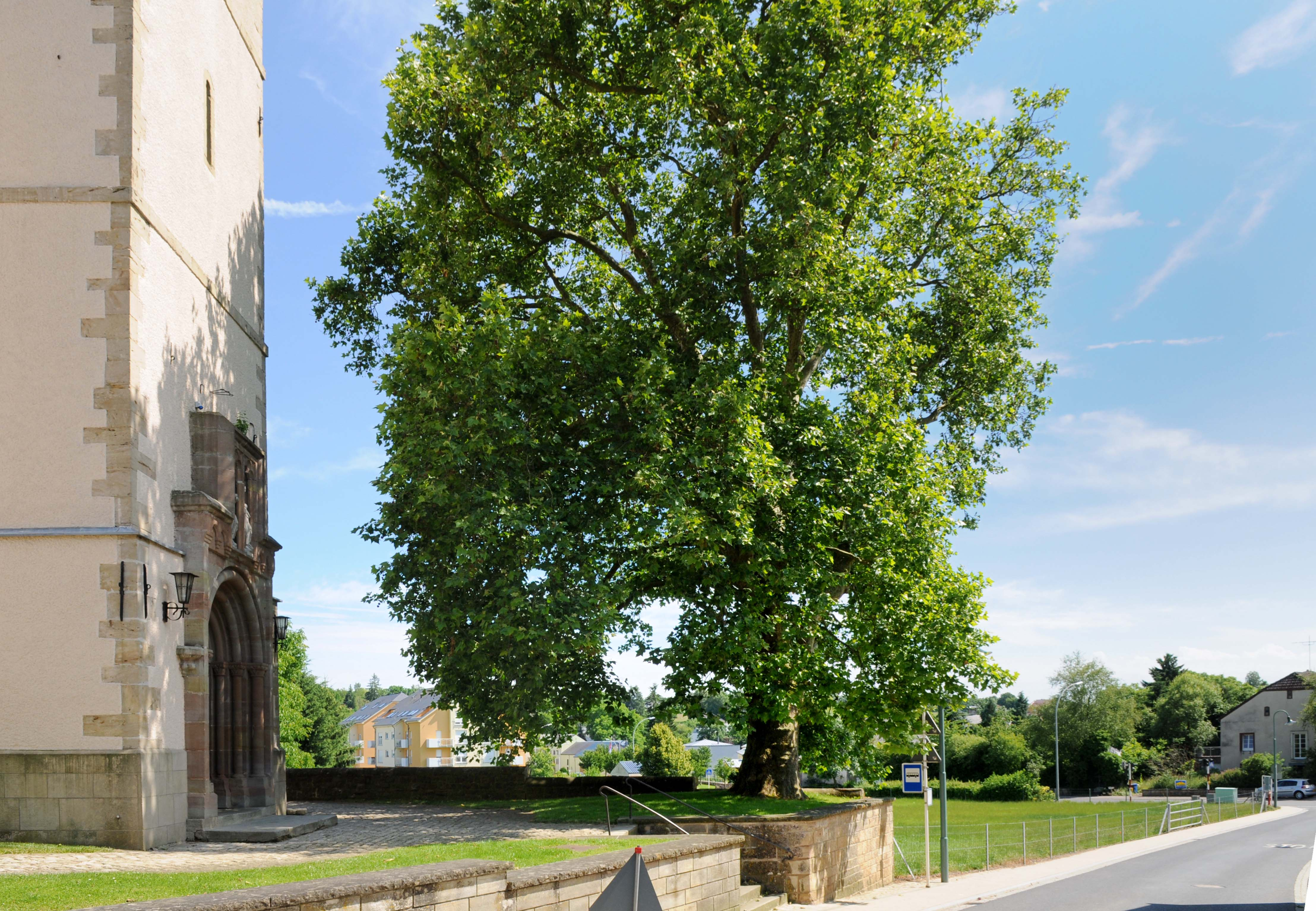 Plane tree close to the entry of the church in Tuntange, Luxembourg (country). This tree is ranked with the "Remarkable trees in Luxembourg".